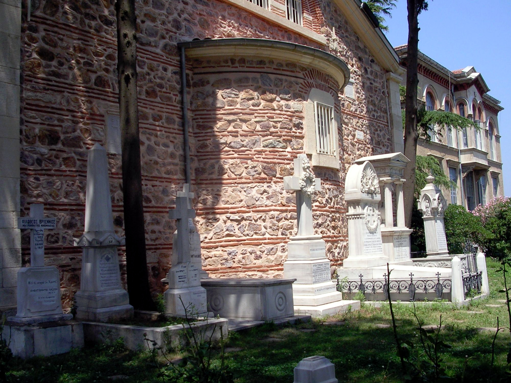 The cemetery at the Theological School of Chalki.